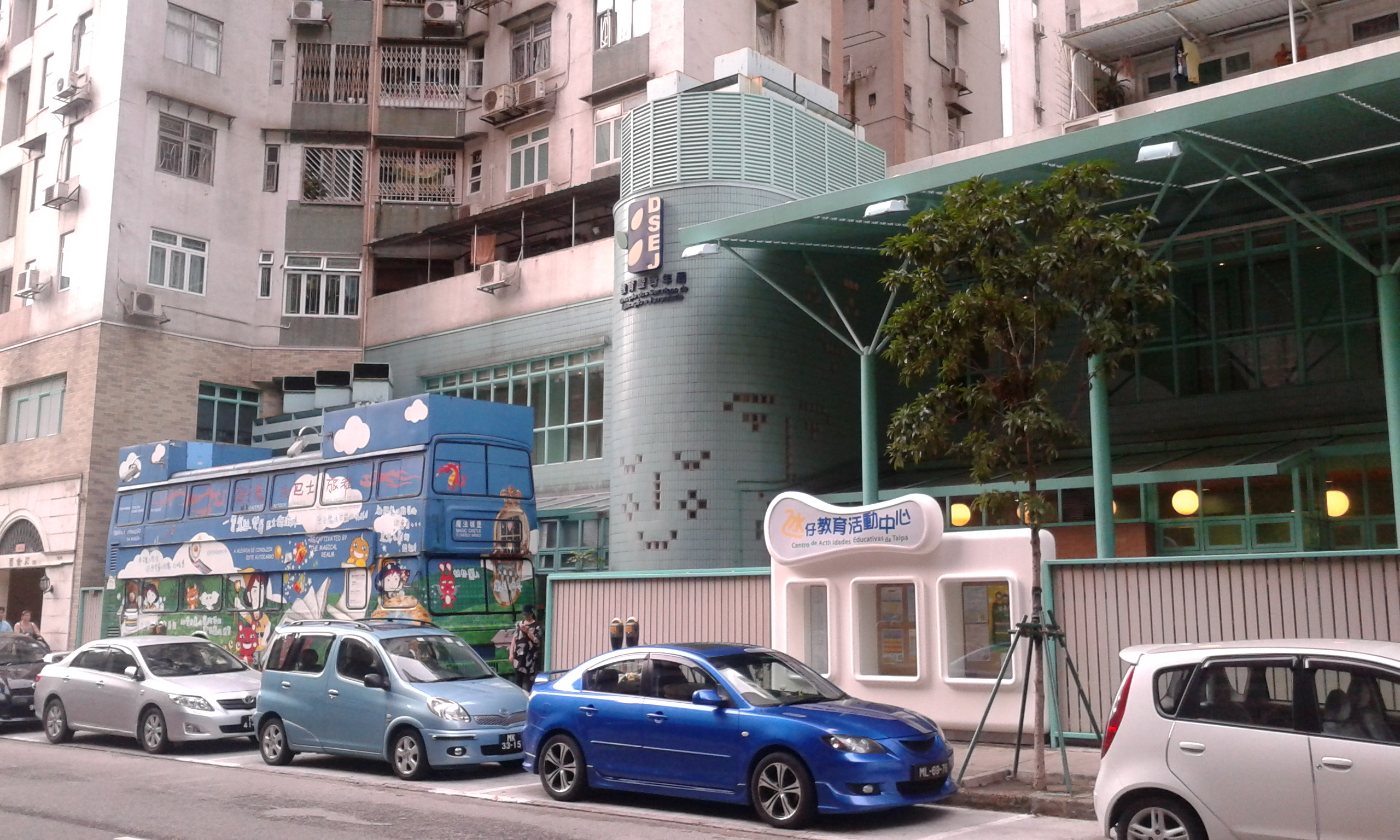 Activity Education Centre in Taipa